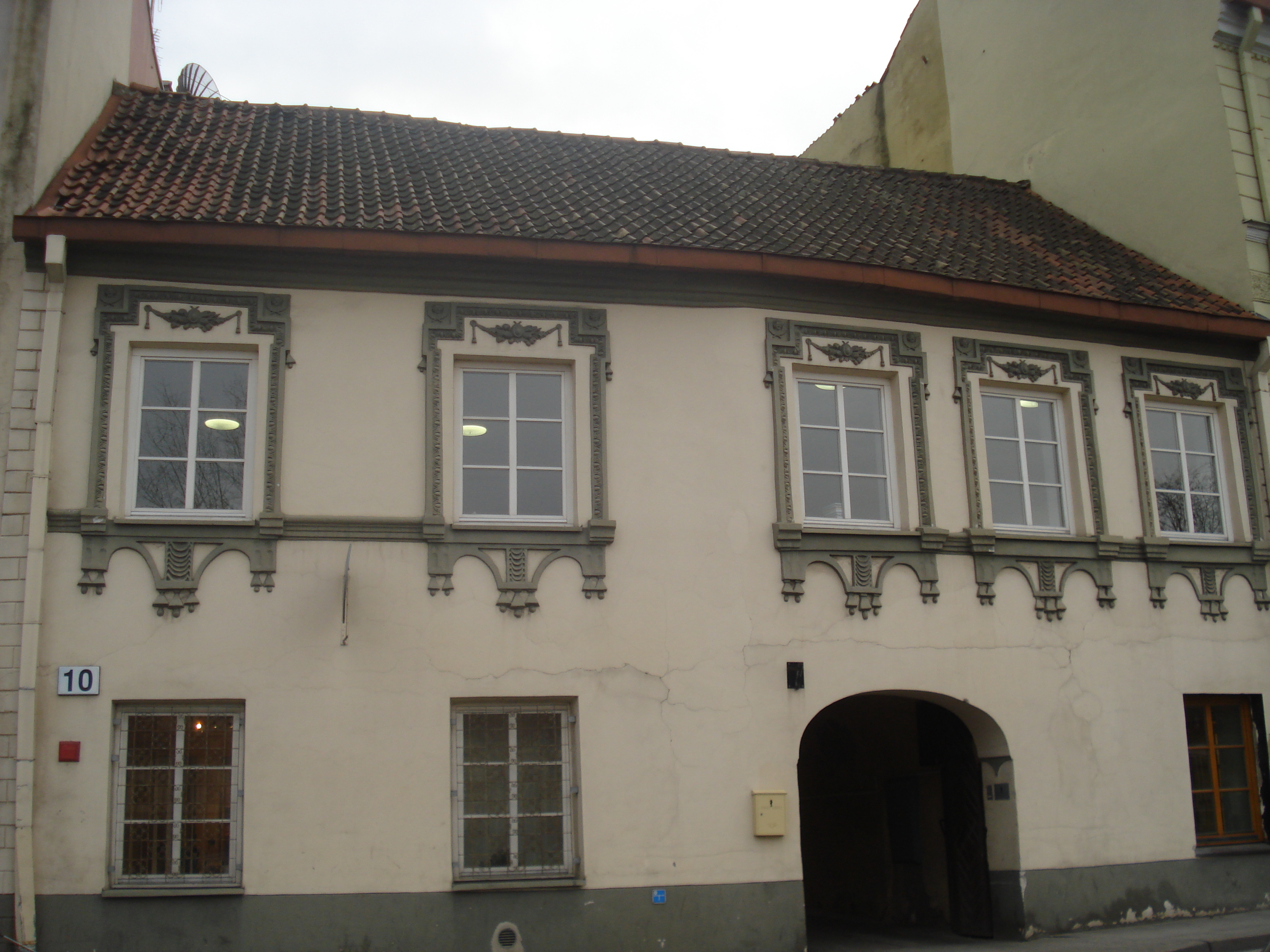 The house in Vilnius with the elements of Baroque an Renaissance. Rūdninkų street 10, Vilnius